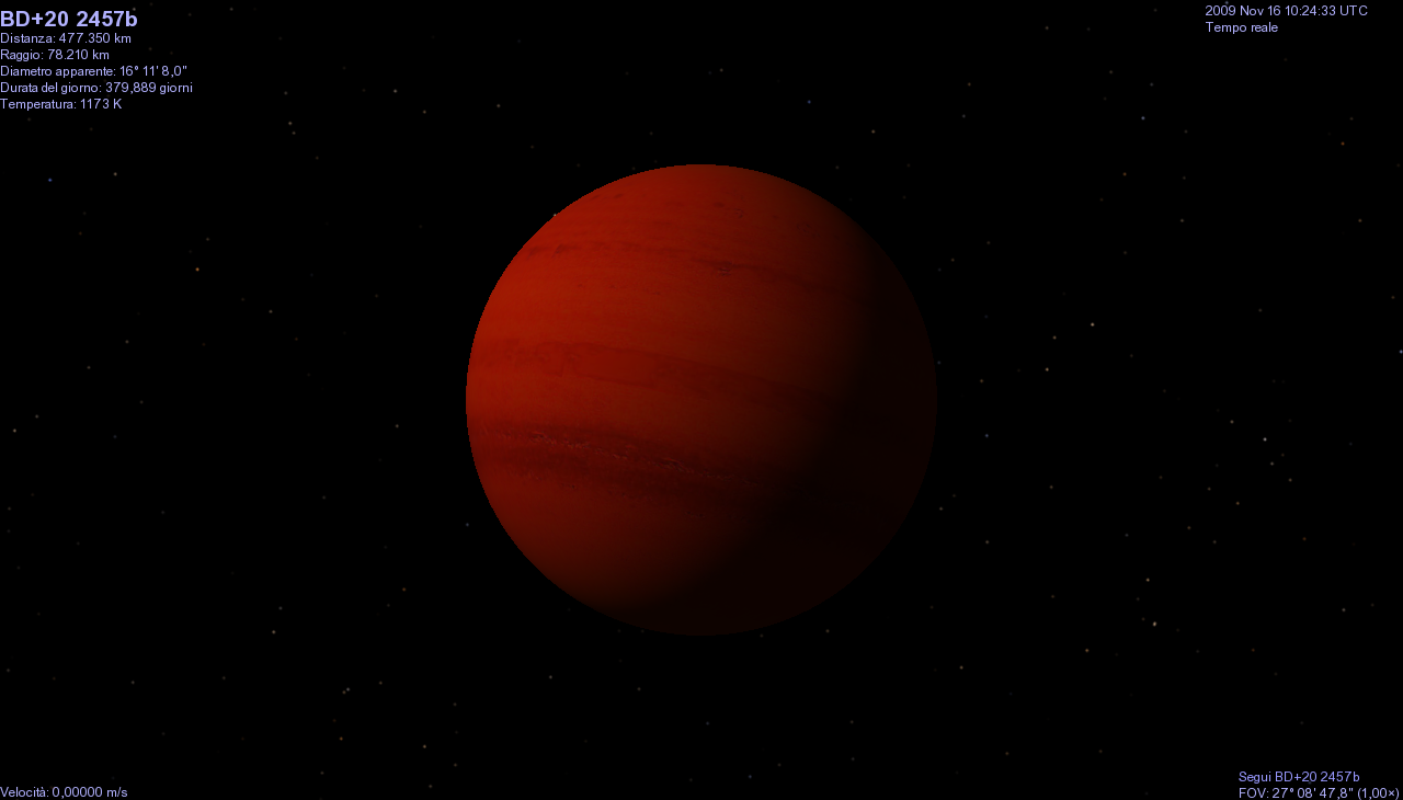 Artistic rendering of BD+20° 2457 B, planet/brown dwarf boundary